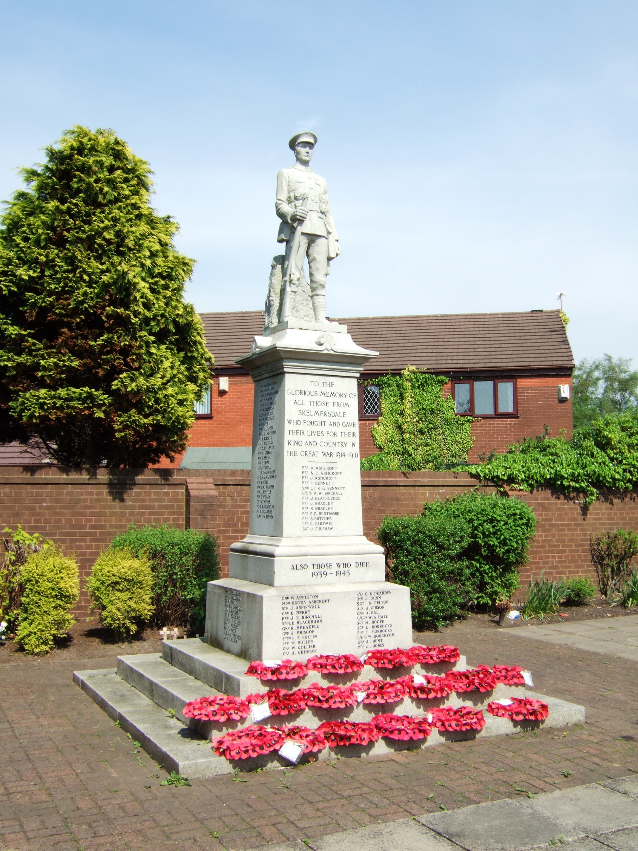 War memorial in Skelmersdale, Lancashire, commemorating local soldiers killed in World War I and World War II.